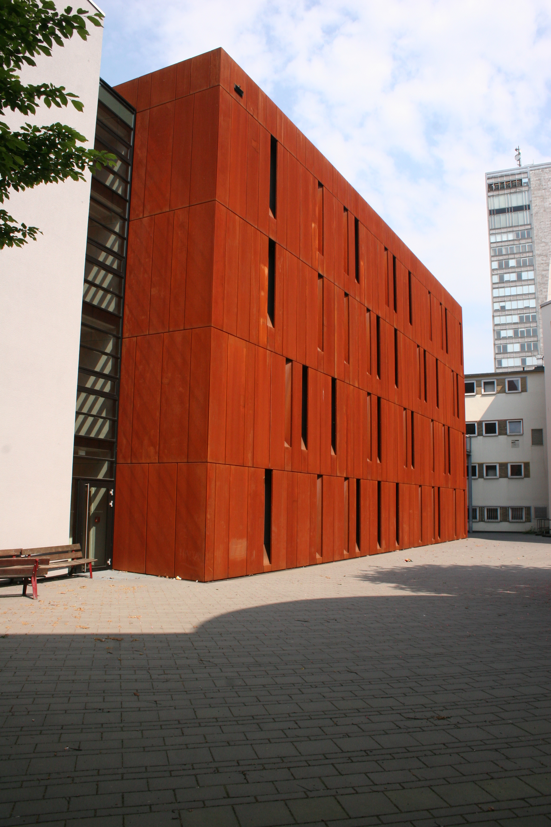 Weathering steel project in Essen by Scheidt Kasprusch Architekten Berlin, built in 2010